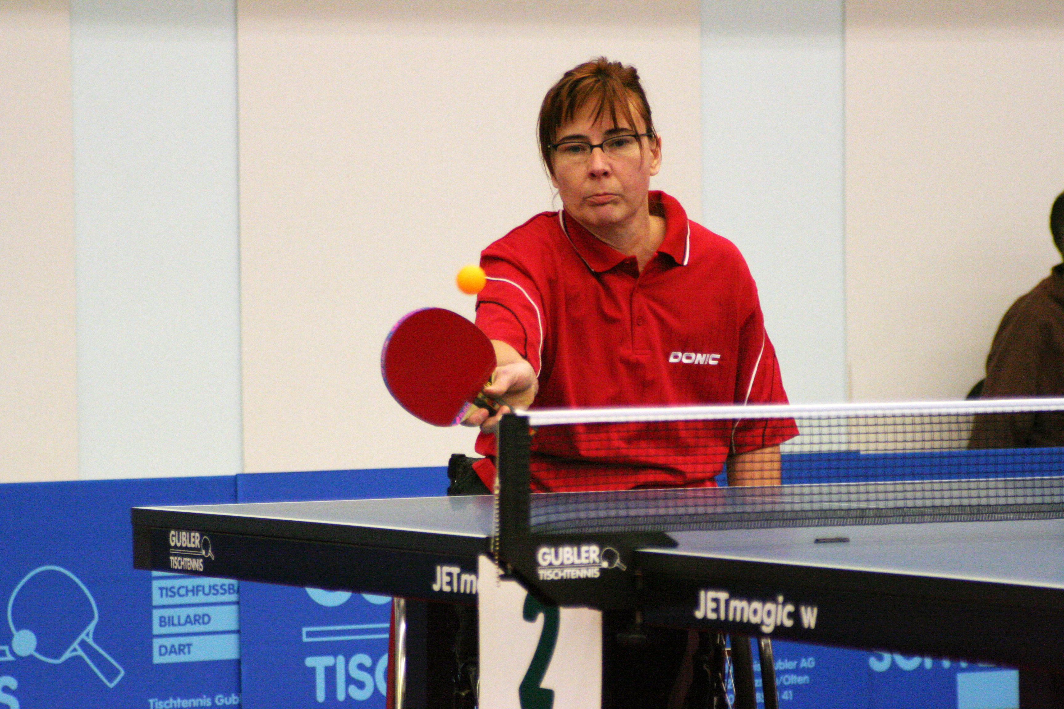 Christiane Pape (Germany)